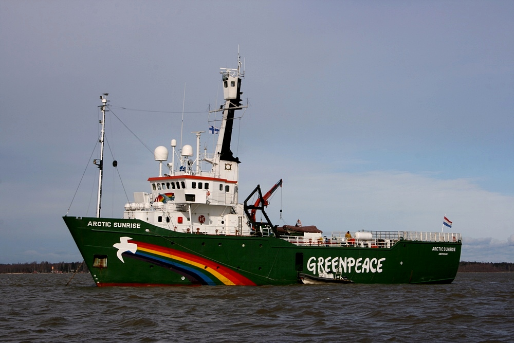 Greenpeace ship Arctic Sunrise in anchor off Mäntyluoto, Finland.